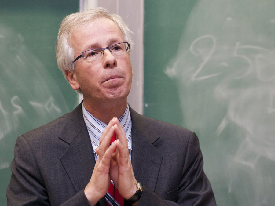 Liberal MP and former Leader of the Opposition, Stéphane Dion, speaks at Carleton University on October 27th, 2009.